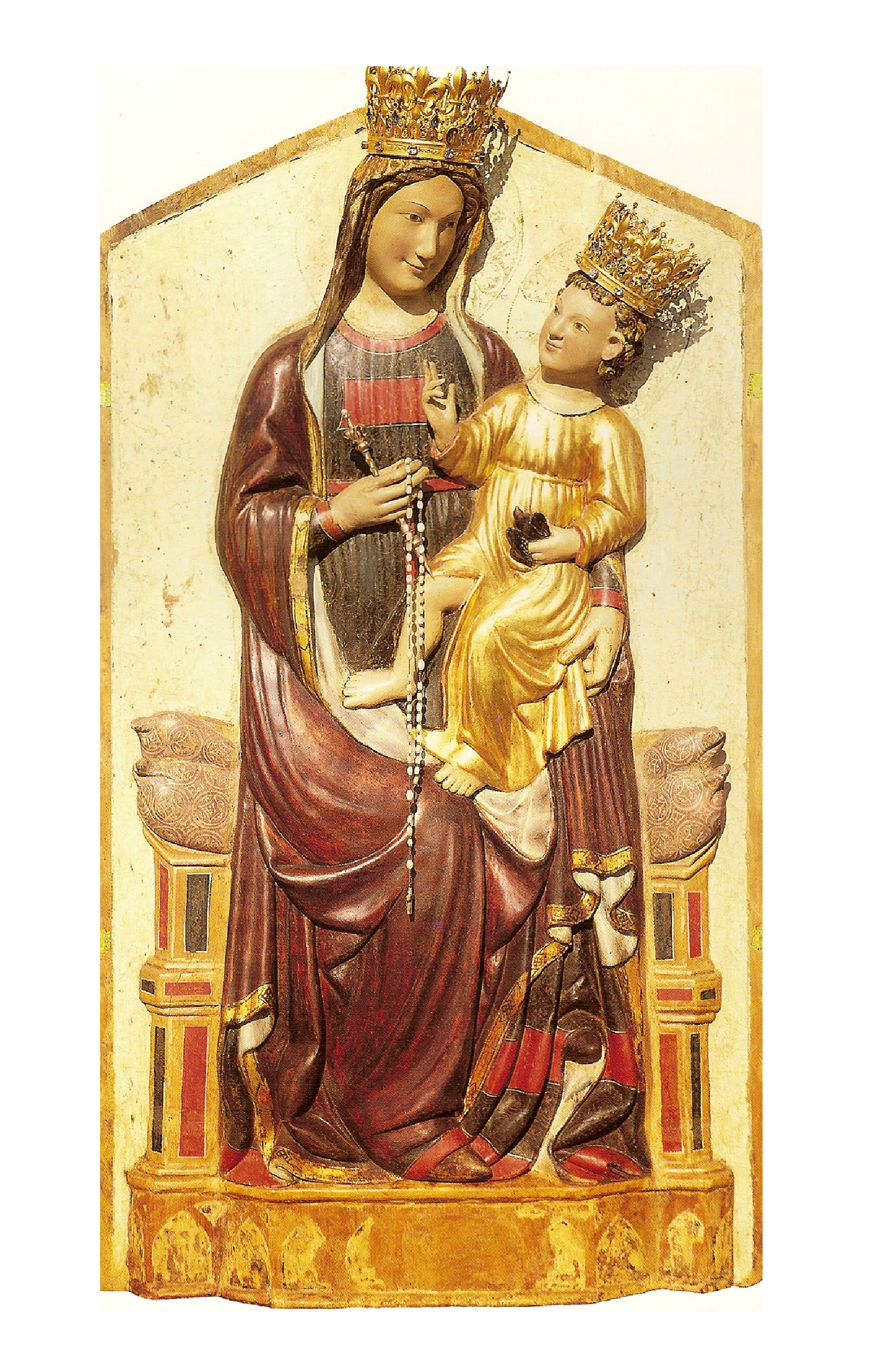 Immagine della Madonna Madre dei Bambini di Cigoli